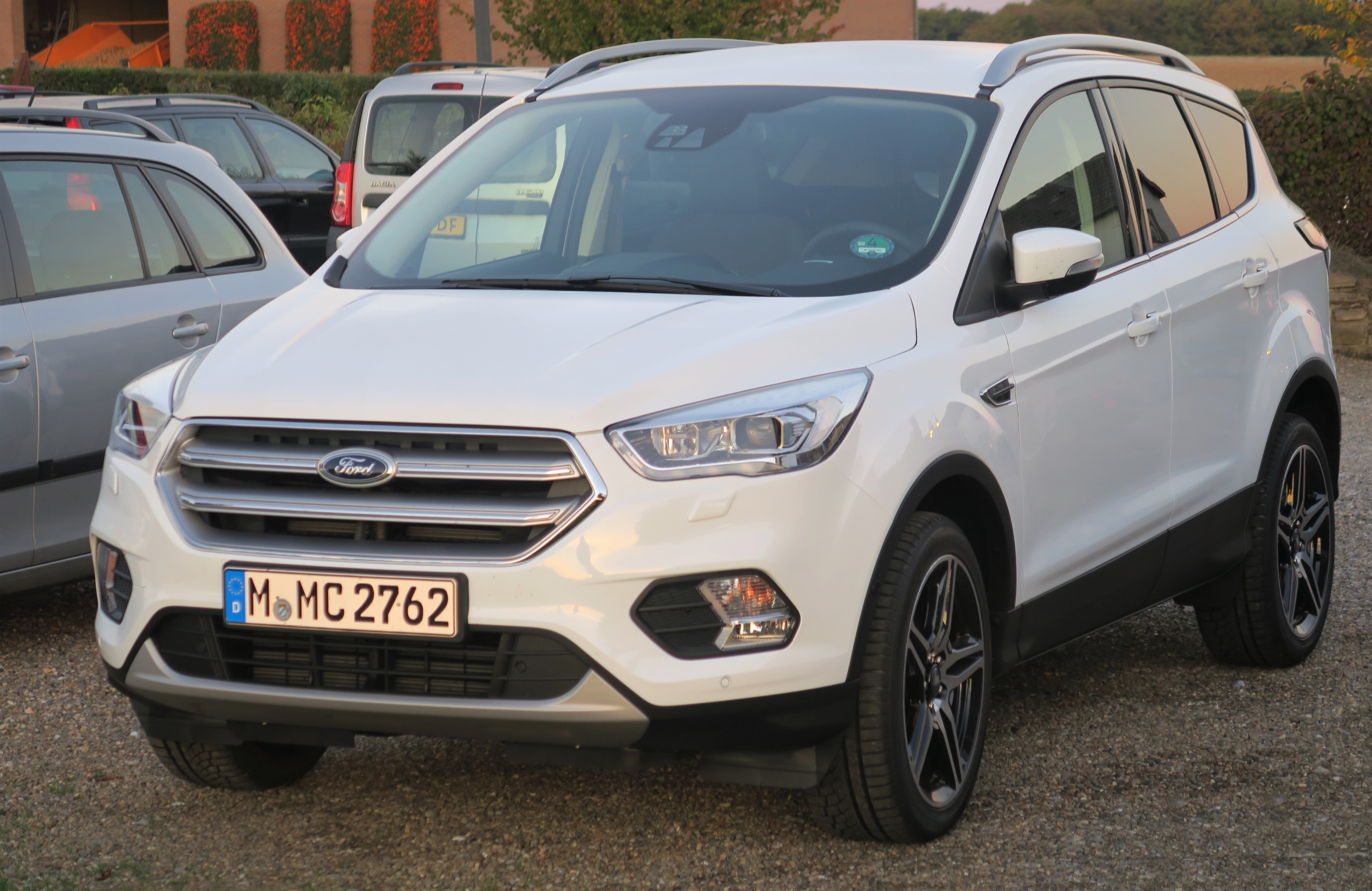 Ford Kuga in Limburg